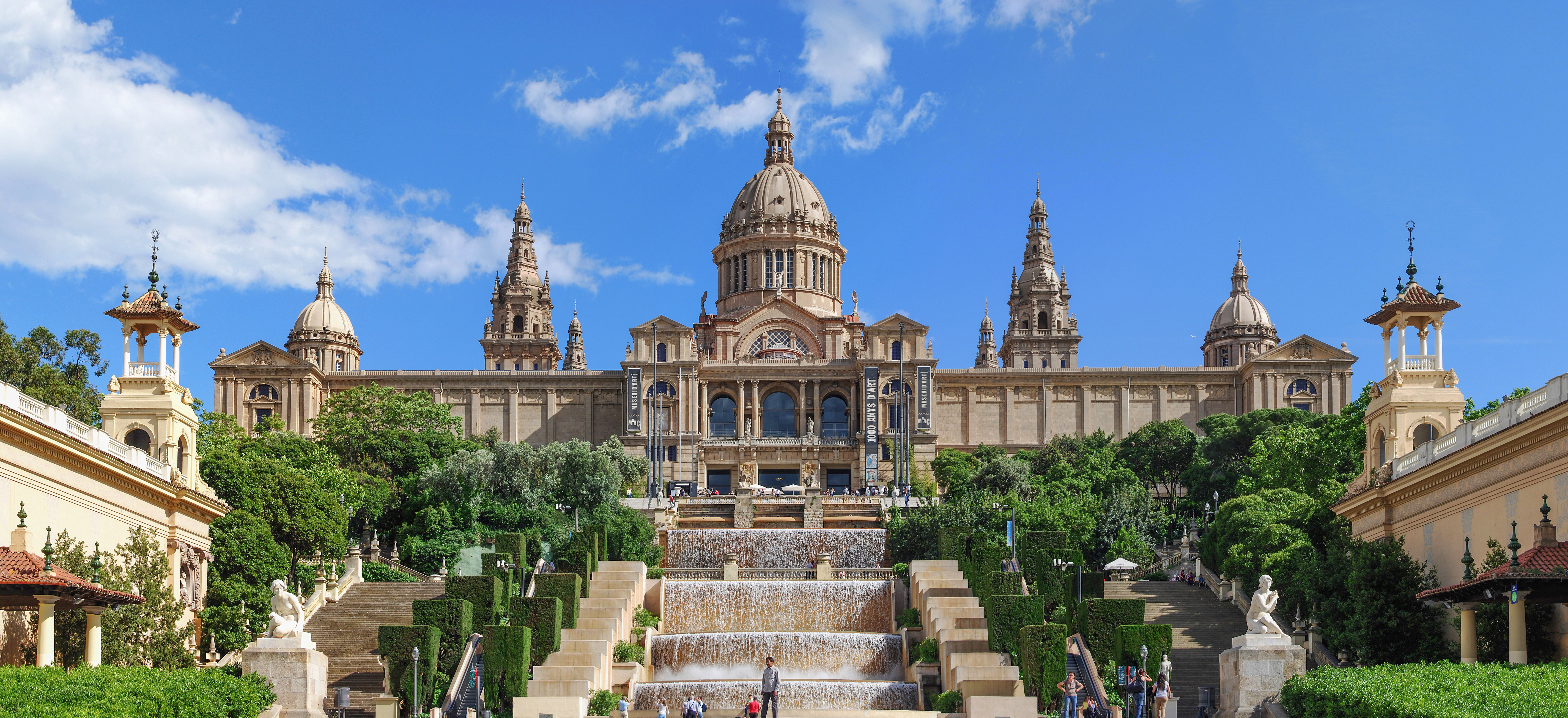 The Palau Nacional, domicile of Museu Nacional d'Art de Catalunya, Barcelona.